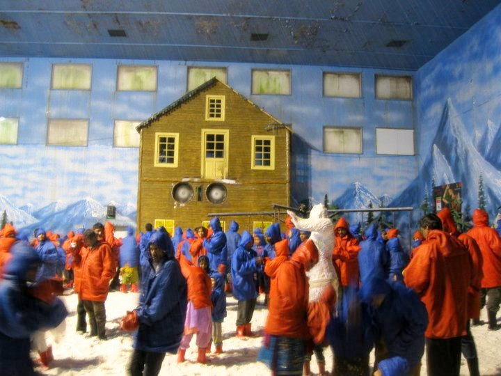 Visitors at the snow world, Hyderabad